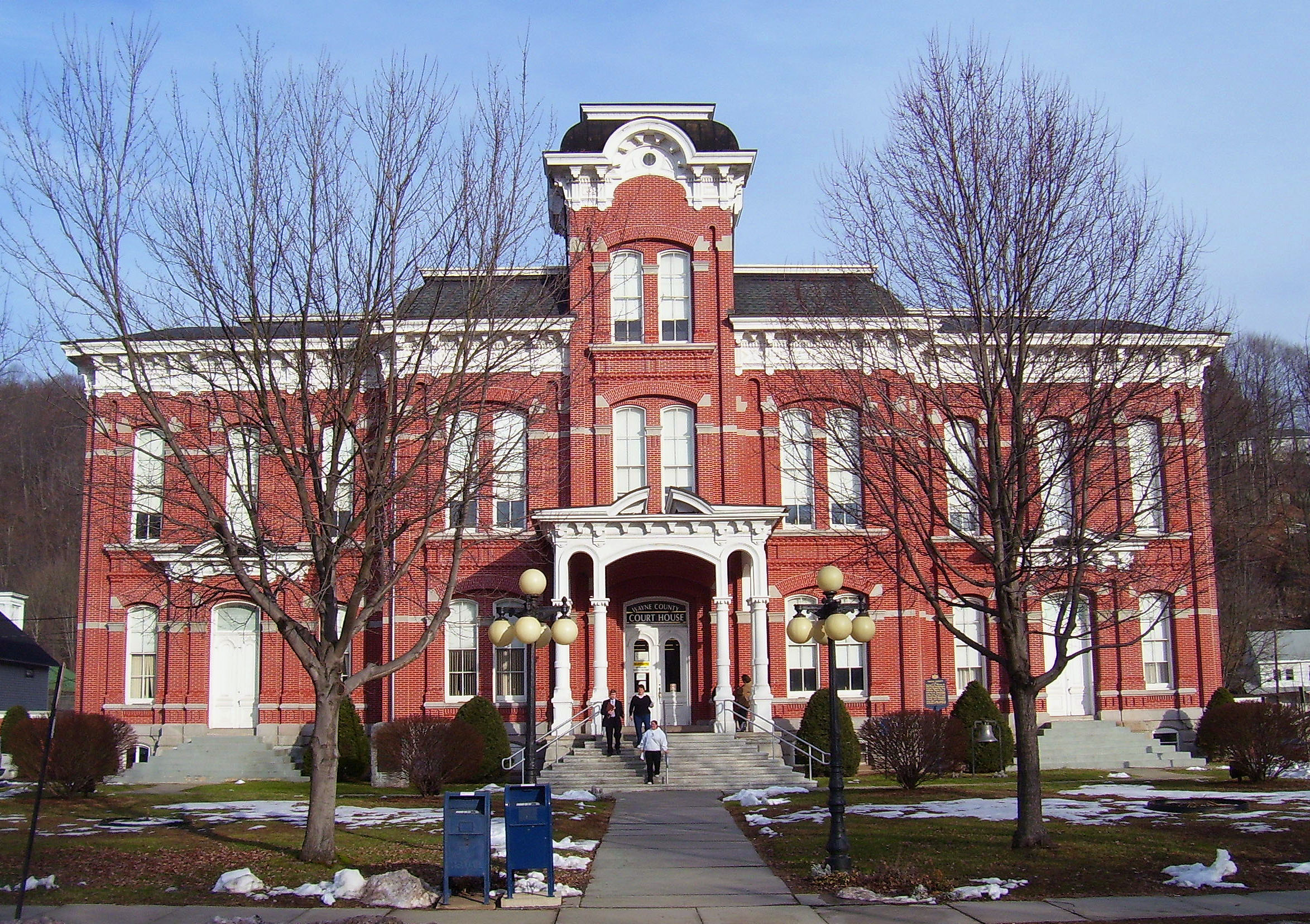 Photographed by Daniel Case on 2006-01-13.